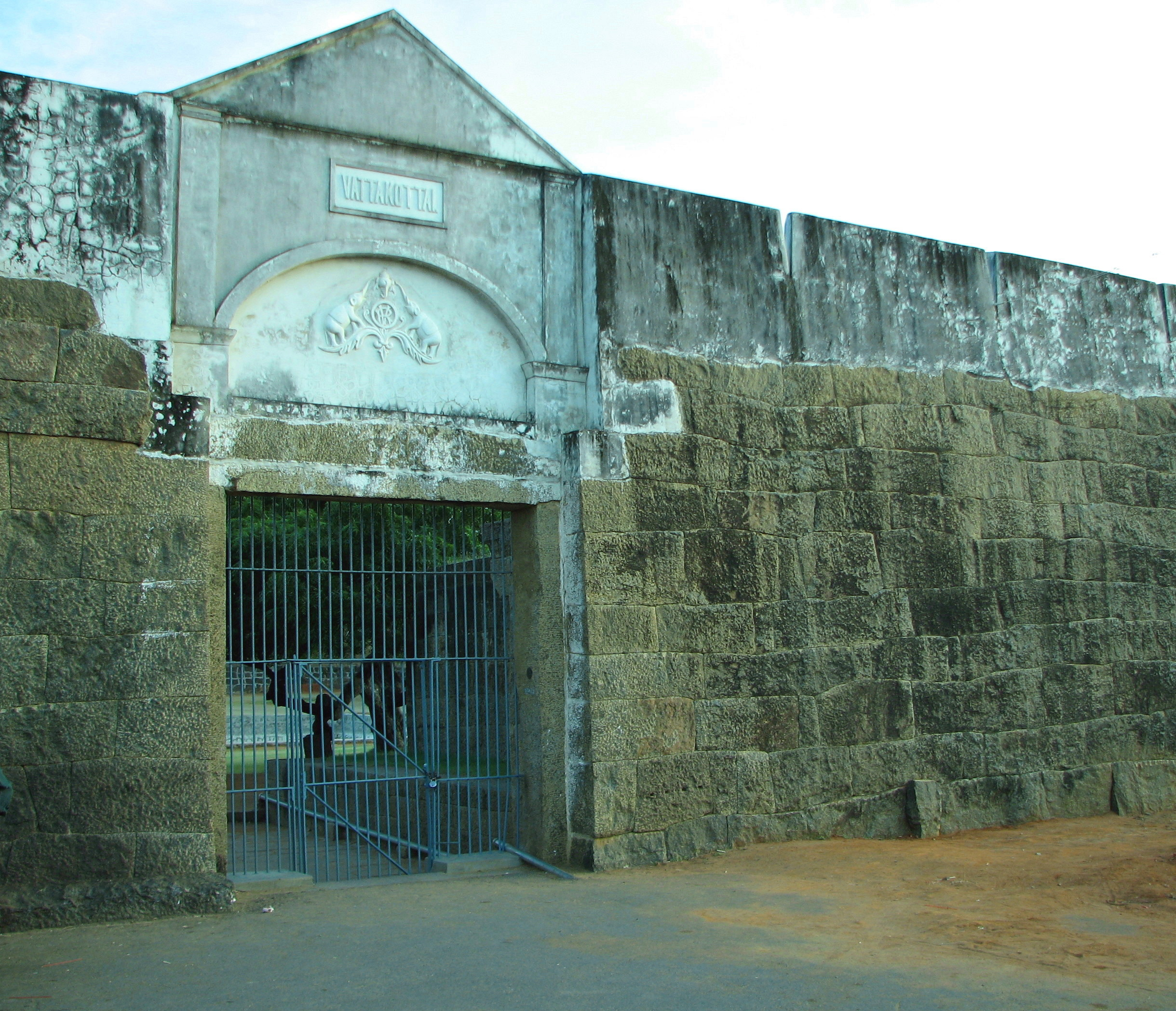 self-made photograph ; Author : Infocaster